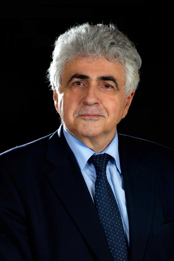 photo of Dr. Nassif Hitti, against a black backdrop.